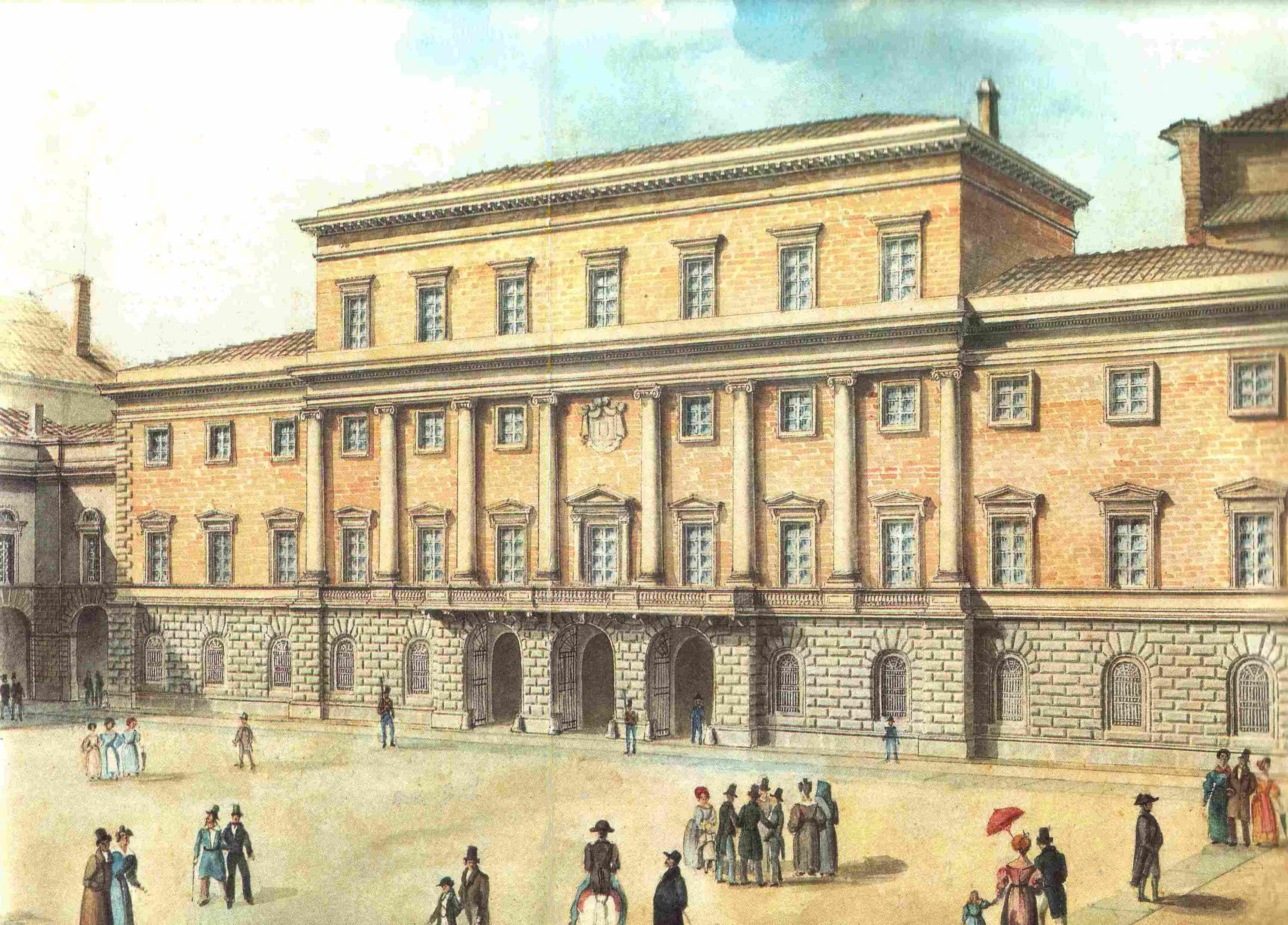 The ducal palace of Parma in a painting by Giacomo Giacopelli (1808-1893).